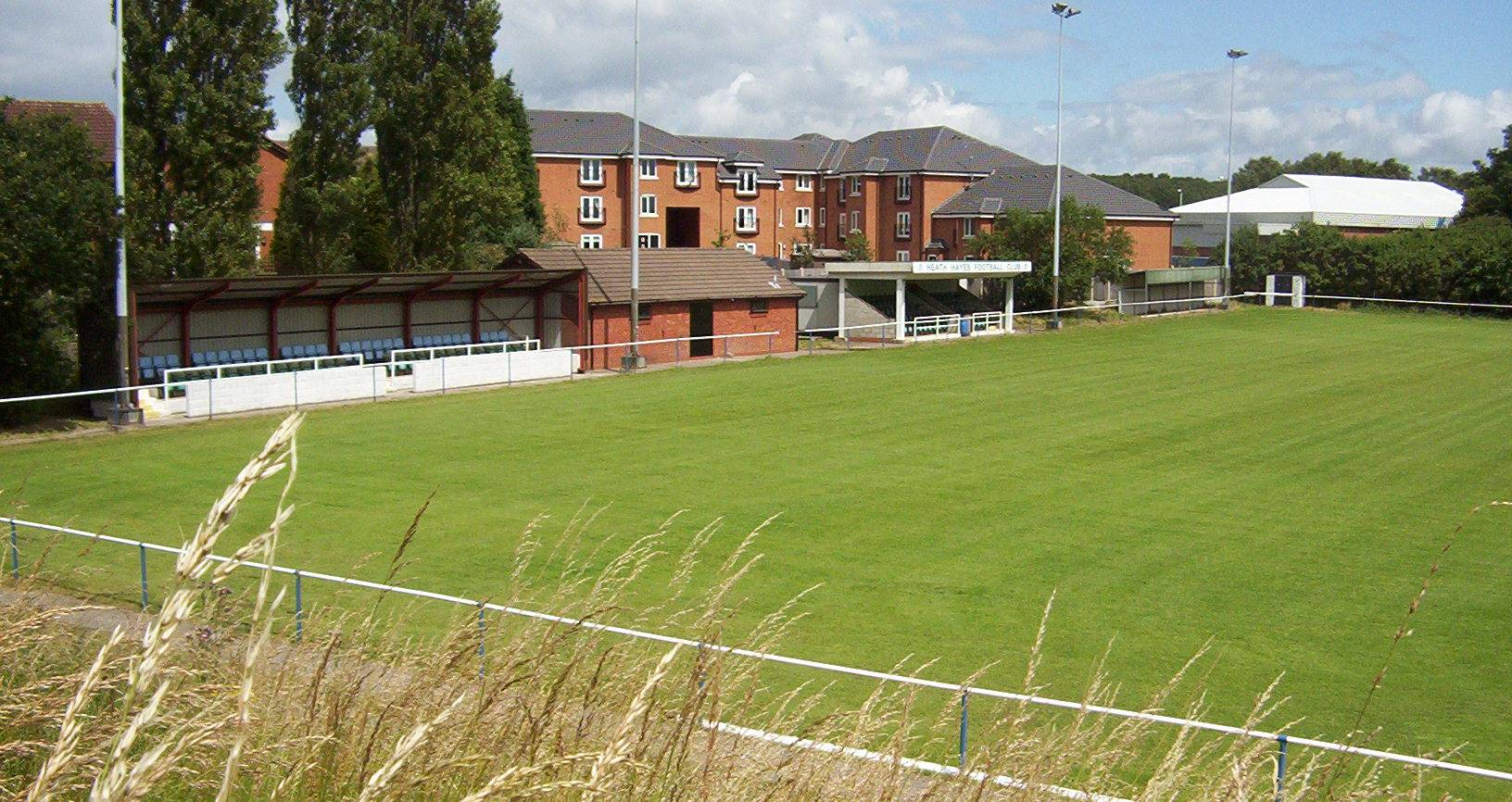 The Coppice Colliery Ground, home of Heath Hayes F.C. and Brocton F.C., photographed by myself on July 20 2008